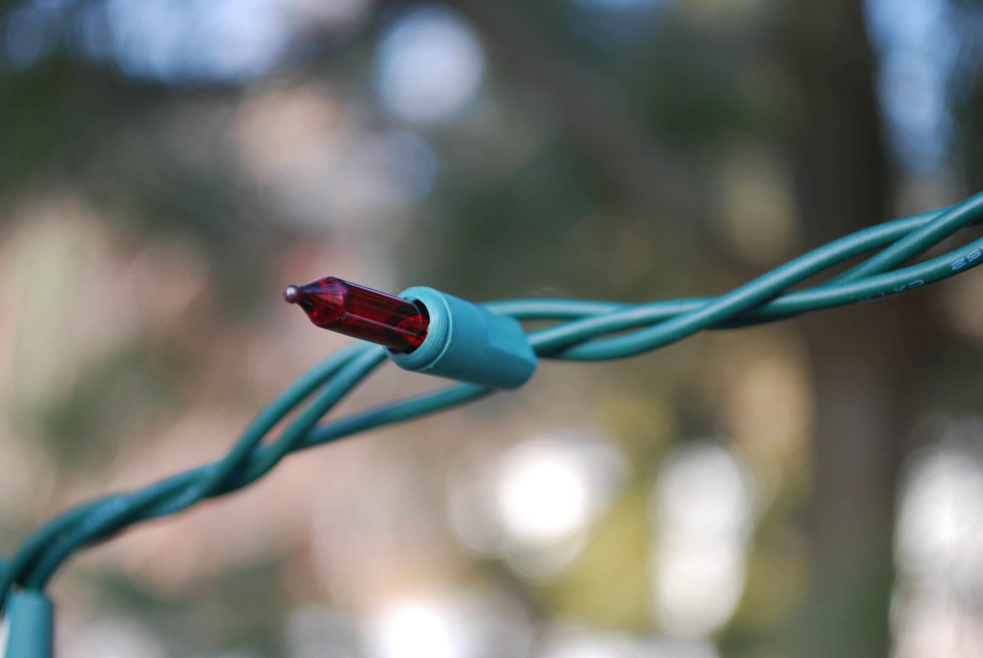 Closeup of a string of decorative Christmas lights